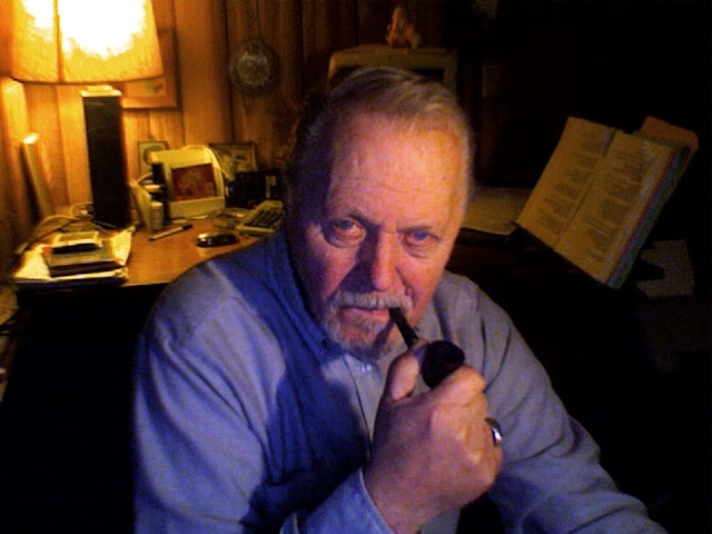 Photo of producer/director Bill Rebane, taken in 2010.